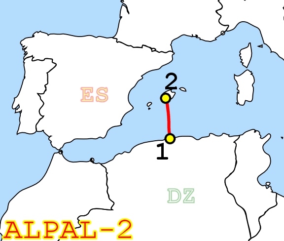 Route of the ALPAL-2 Submarine communications cable. For more information about numbered landing points, see main article.